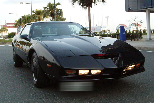 KNIGHT2000 Universal Studios offical replica